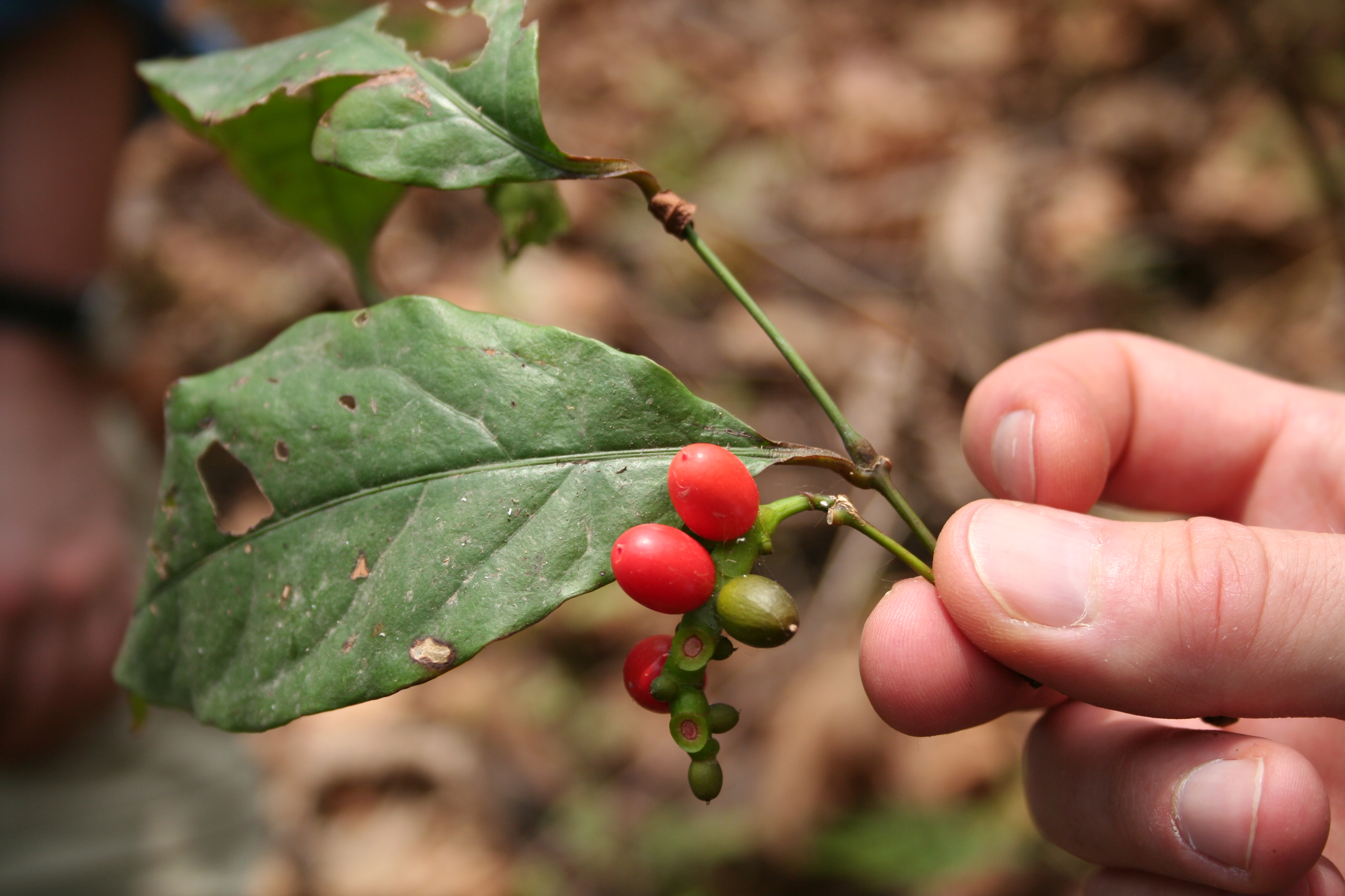 Gnetum africanum, Bota Hill, Limbe Bot. Garden, Cameroon